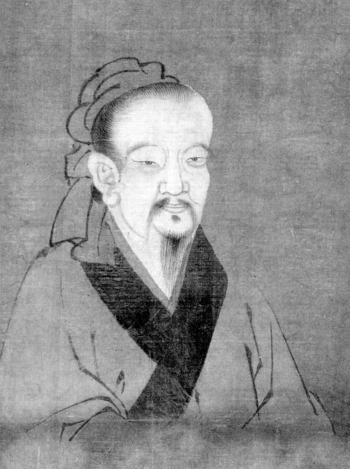 Courtesy of the Collection of the National Palace Museum, Taipei, Taiwan, Republic of China